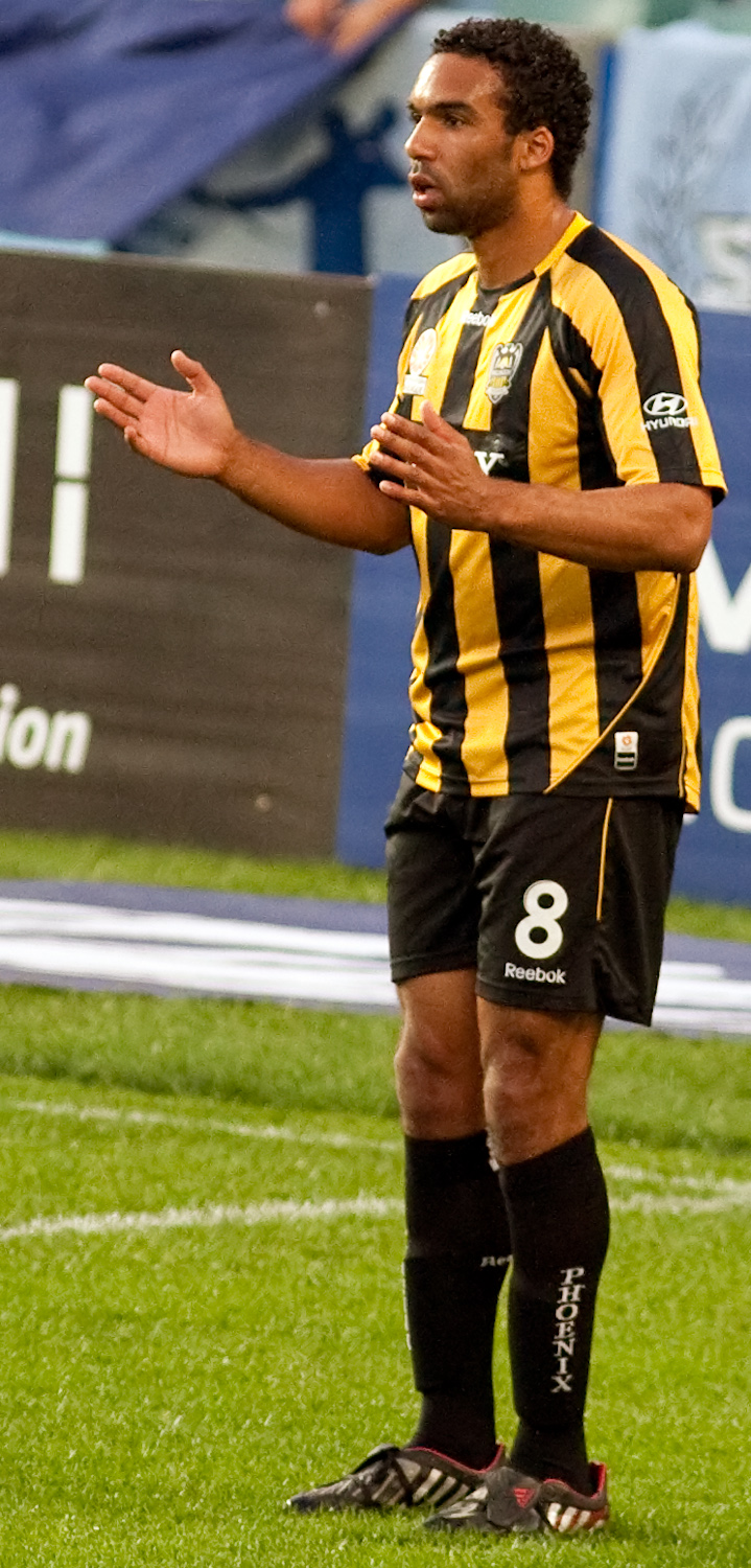 Paul Ifill playing for the Wellington Phoenix against Sydney FC in the 2009-10 A-League.